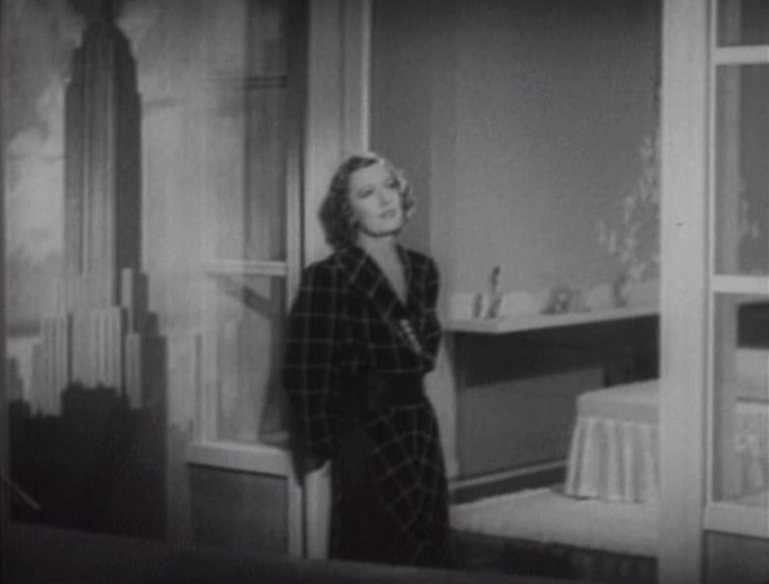 Cropped screenshot of Irene Dunne from the film Love Affair.